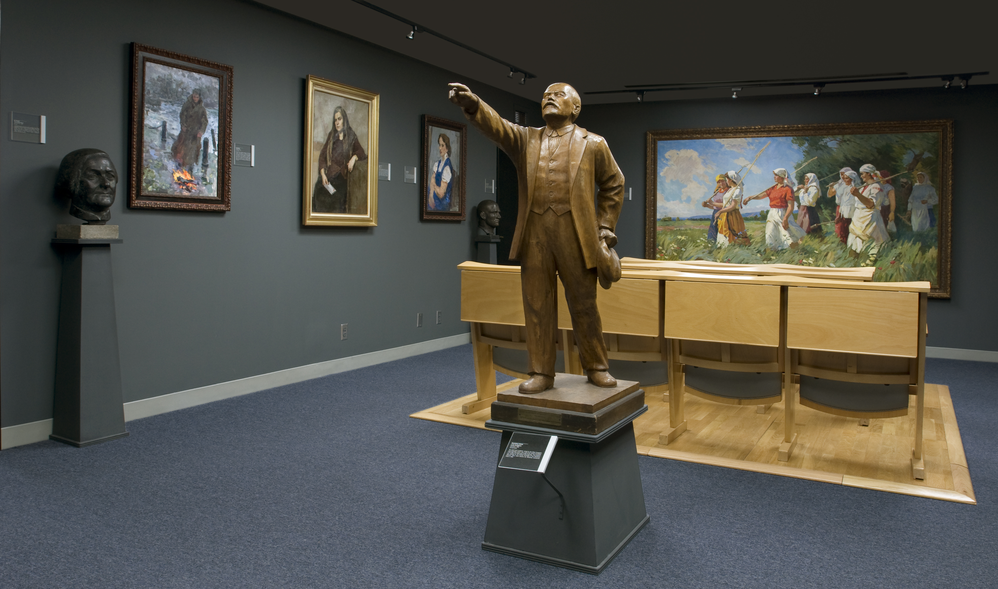 Main gallery of the Wende Museum displaying and statue of Lenin.